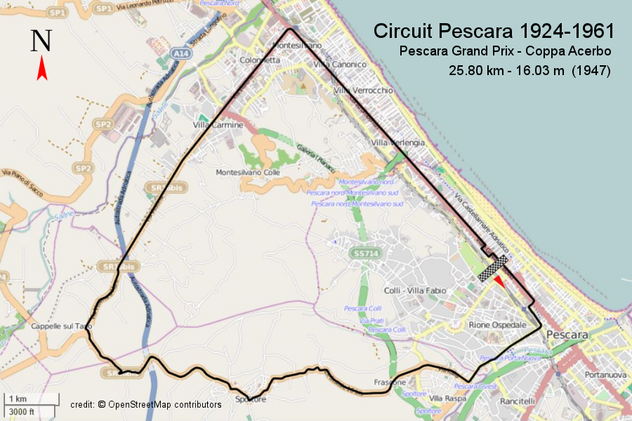 Circuito di Pescara 1924 (openstreetmap)